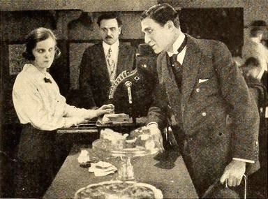 Still from the American drama film Daughter of Mine (1919) with Madge Kennedy and Arthur Edmund Carewe, on page 21 of the June 1919 Film Fun. The caption states, "Rayberg offers Rosie, a restaurant cashier, a place in his publishing house."